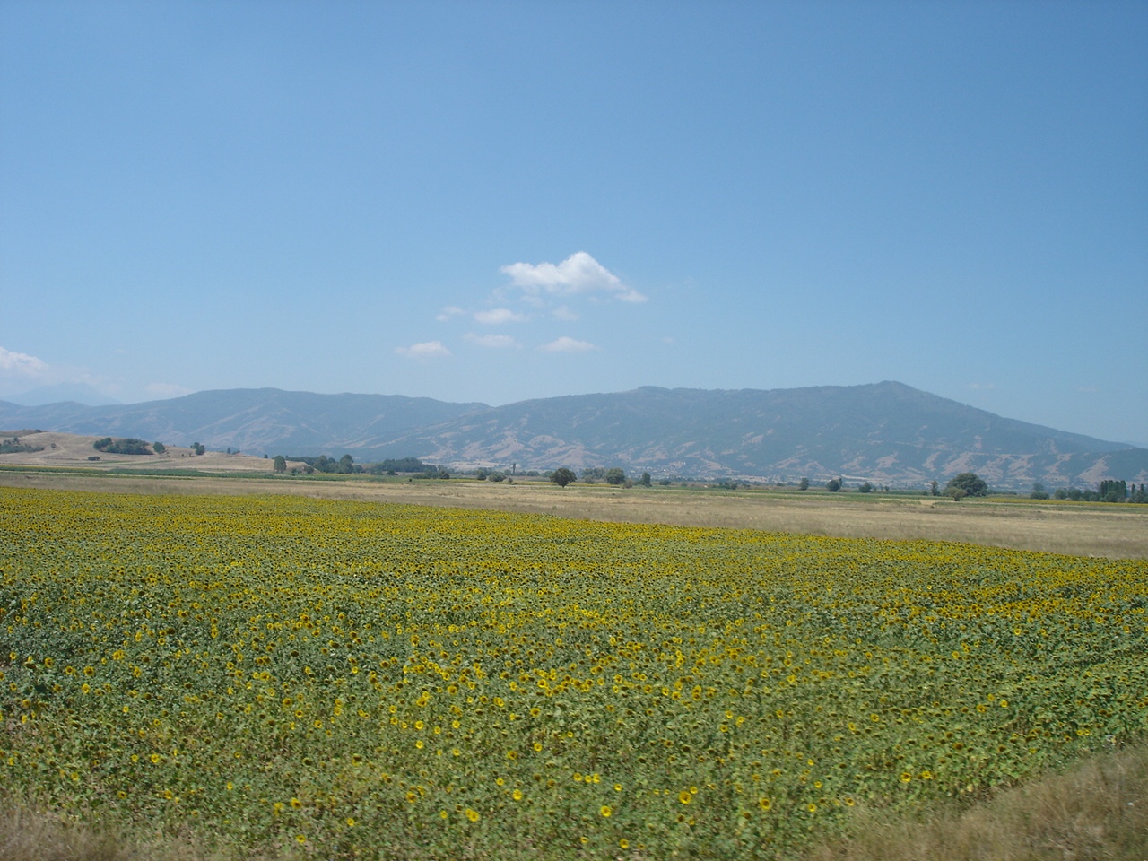 Sunflower field in Pelagonia, Macedonia